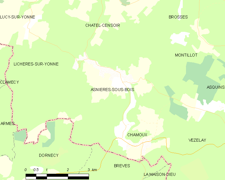 Map of French municipality Asnières-sous-Bois